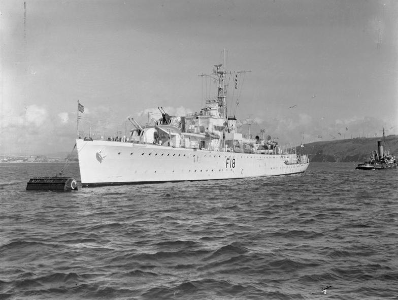 Photograph of British Black Swan class sloop HMS Flamingo, in Plymouth Sound.